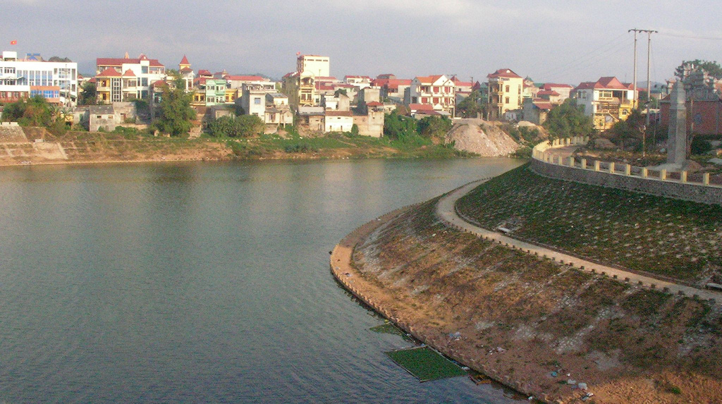 Lang Son, Vietnam